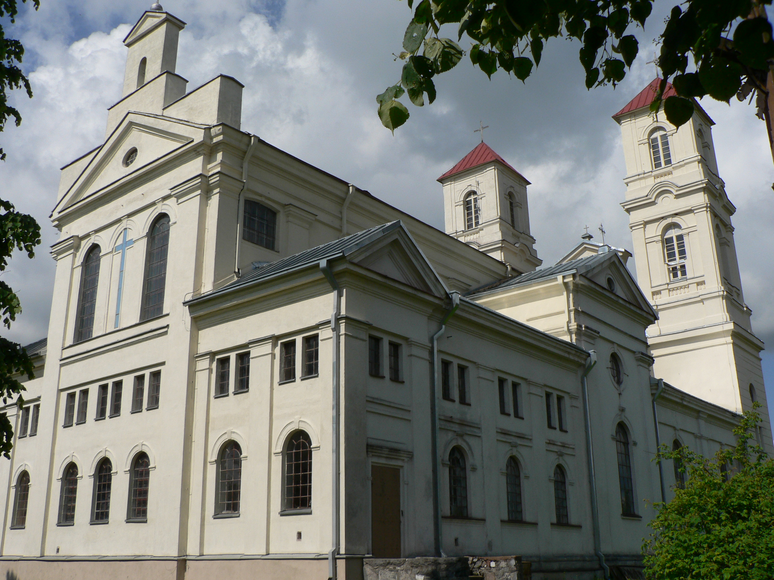 St. Teresa church, Benedict Tyszkiewicz foundation, Raudondvaris, Lithuania. Author: Wojsyl